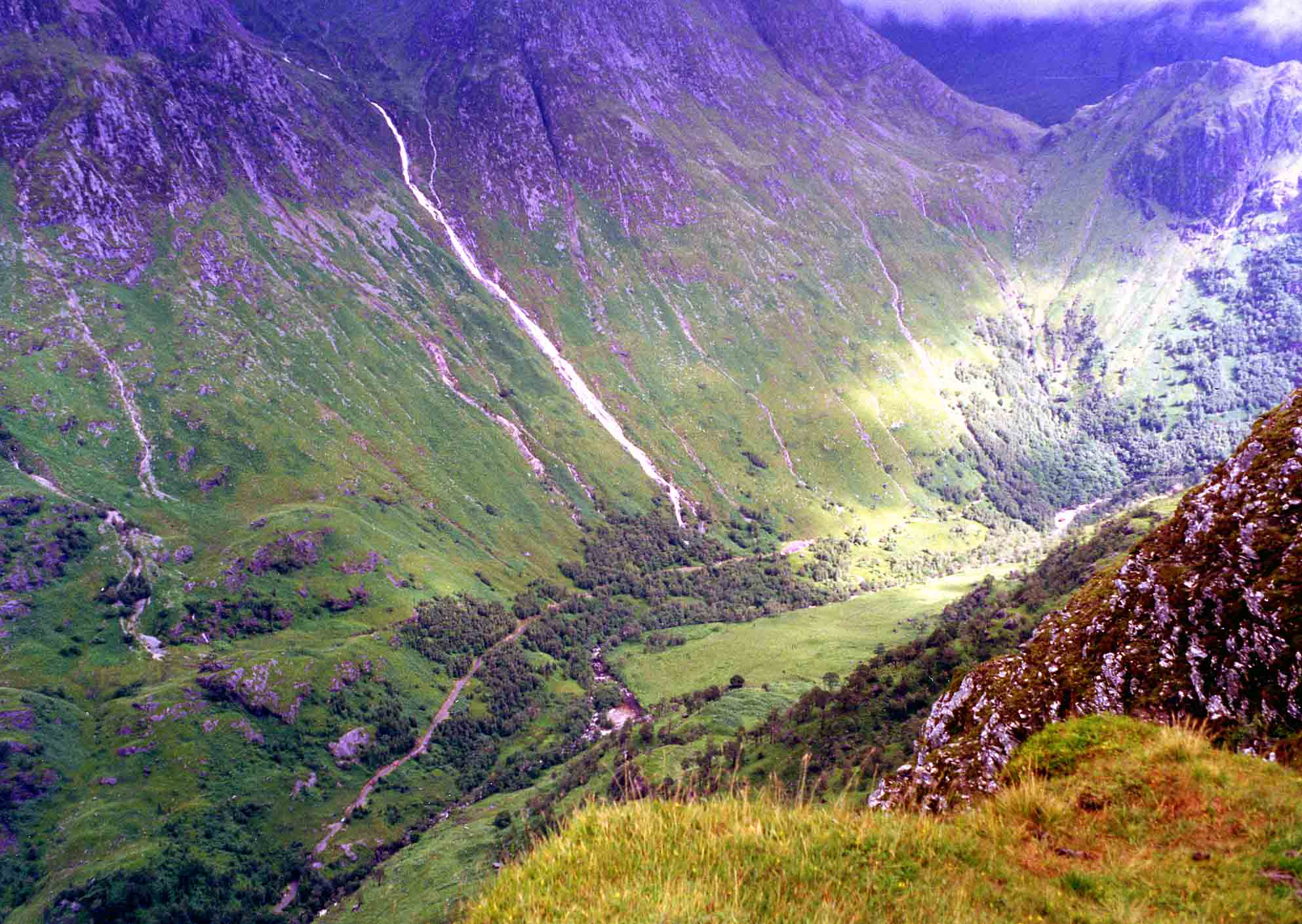 Personal photograph taken by Mick Knapton